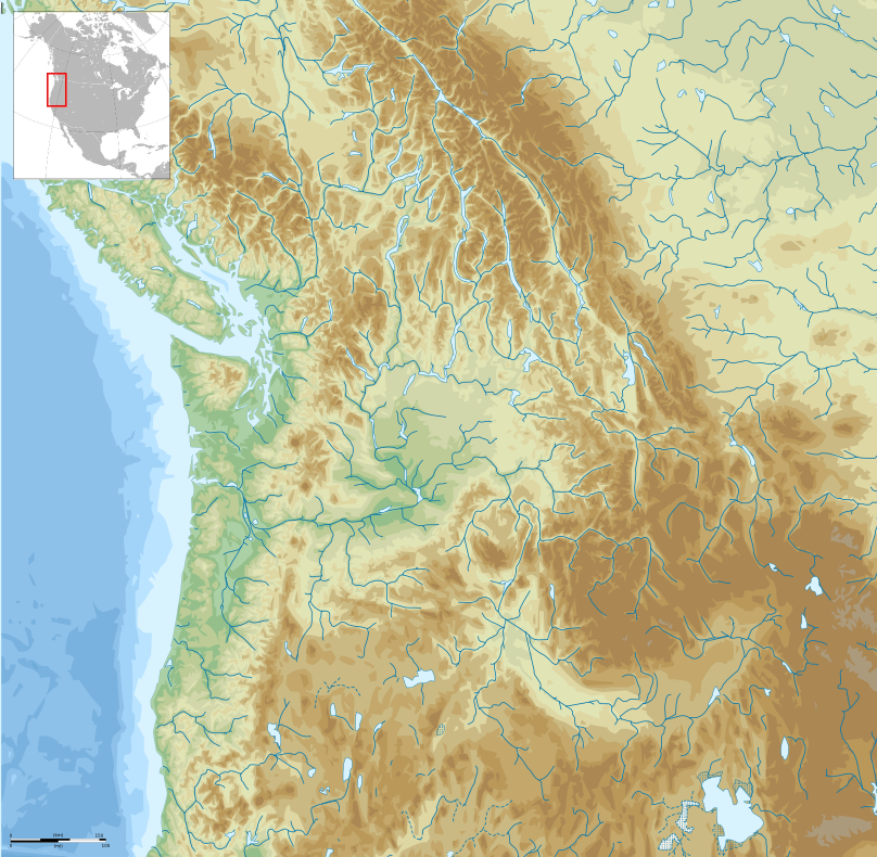 Topographic blank map of the Columbia River